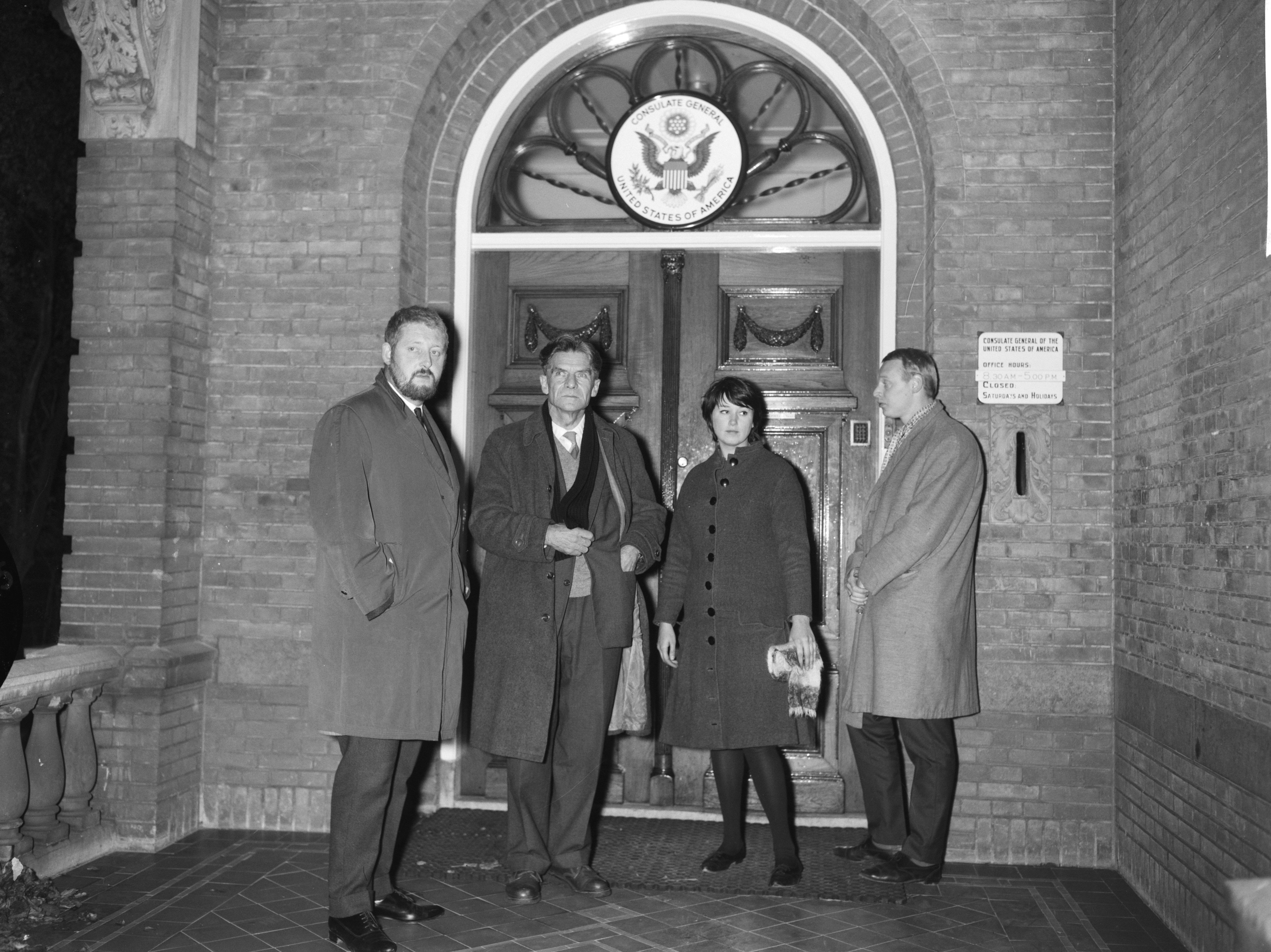 Protestdemonstratie tegen de A-bom in Amsterdam. A. den Doolaard, Frits Müller, Simon Vinkenoog, Gerda van der Elsken-van der Veen voor het Amerikaanse consulaat in Amsterdam.